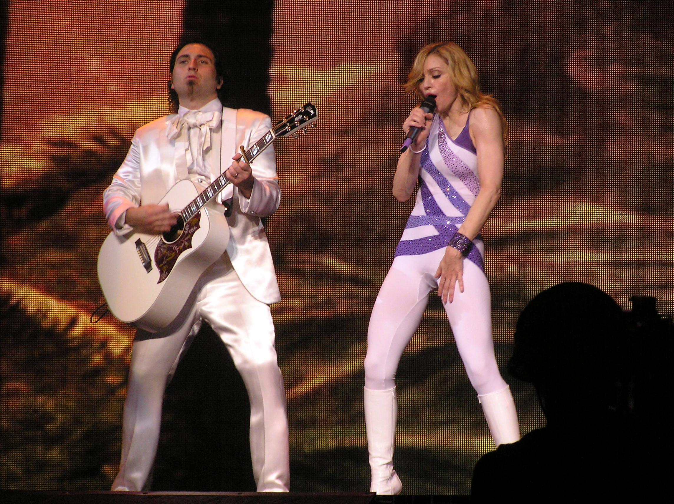 Madonna Concert